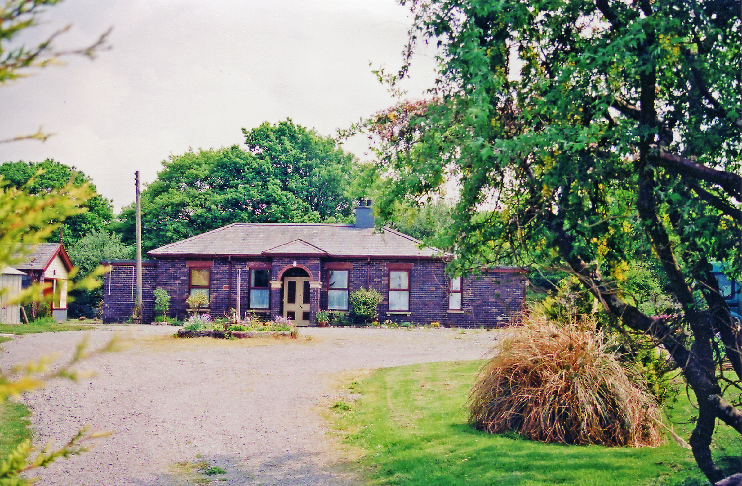 Former Maentwrog Road station, 2001. View east from the A470 road, to the former station entrance, now a private house. The line behind had been the ex-GWR Bala (to right) - Blaenau Ffestiniog (to left), closed 4/1/60 to passengers, 28/1/61 to freight. However this section, from Trawsfynydd to Blaenau Ffestiniog Central and through a new tunnel to the North station, was reopened for access to Trawsfynydd Nuclear Power Station in April 1964 and remained until 1995 (and mothballed), after the Power Station was closed in 1991.